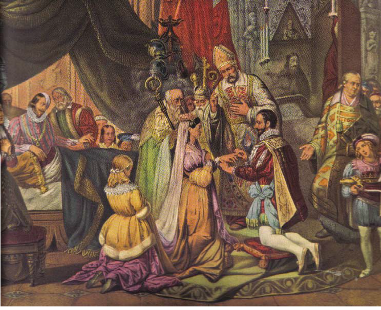 The Royal Wedding of Duke of Savoy Emanuele Filiberto